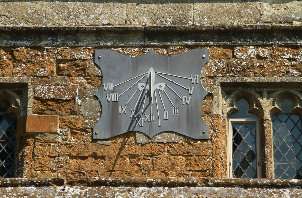 Sundial on the clerestory of the parish church of St St John the Baptist, Bodicote, Oxfordshire, seen from the south